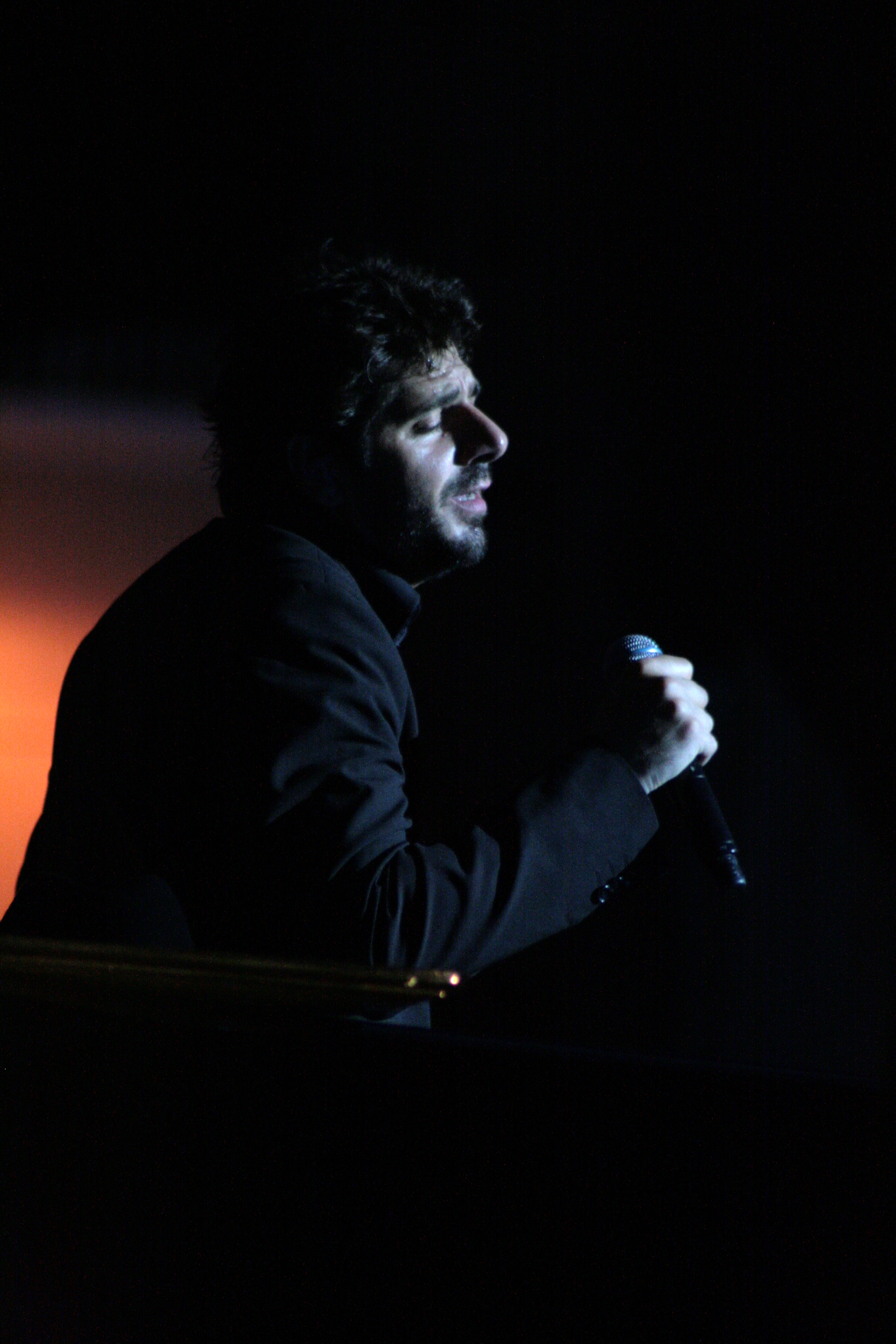 From description: concert Patrick FIORI, théâtre antique (ORANGE,FR84)